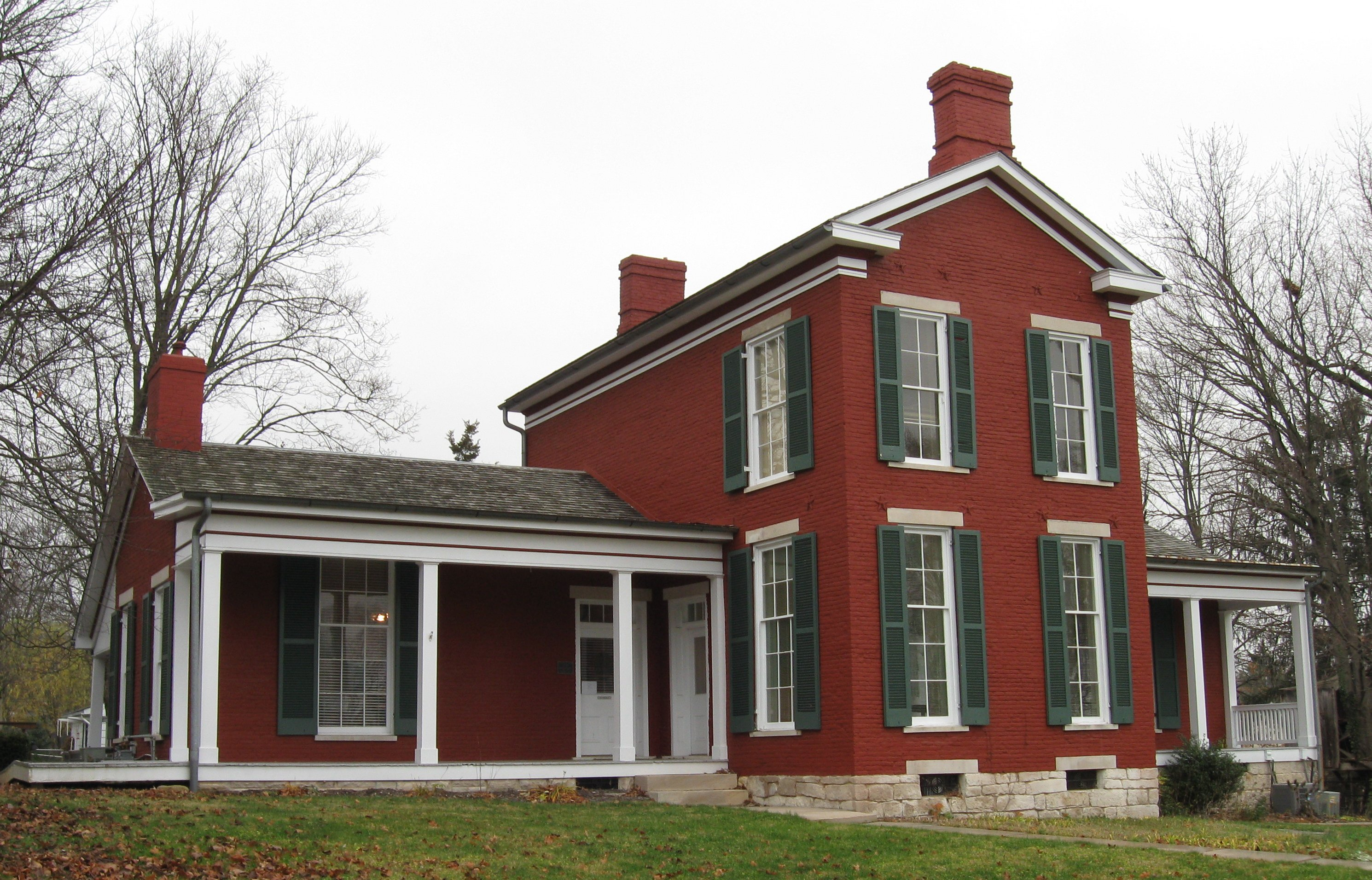 The Blair-Dunning House in Bloomington, Indiana, home of Paris C. Dunning.